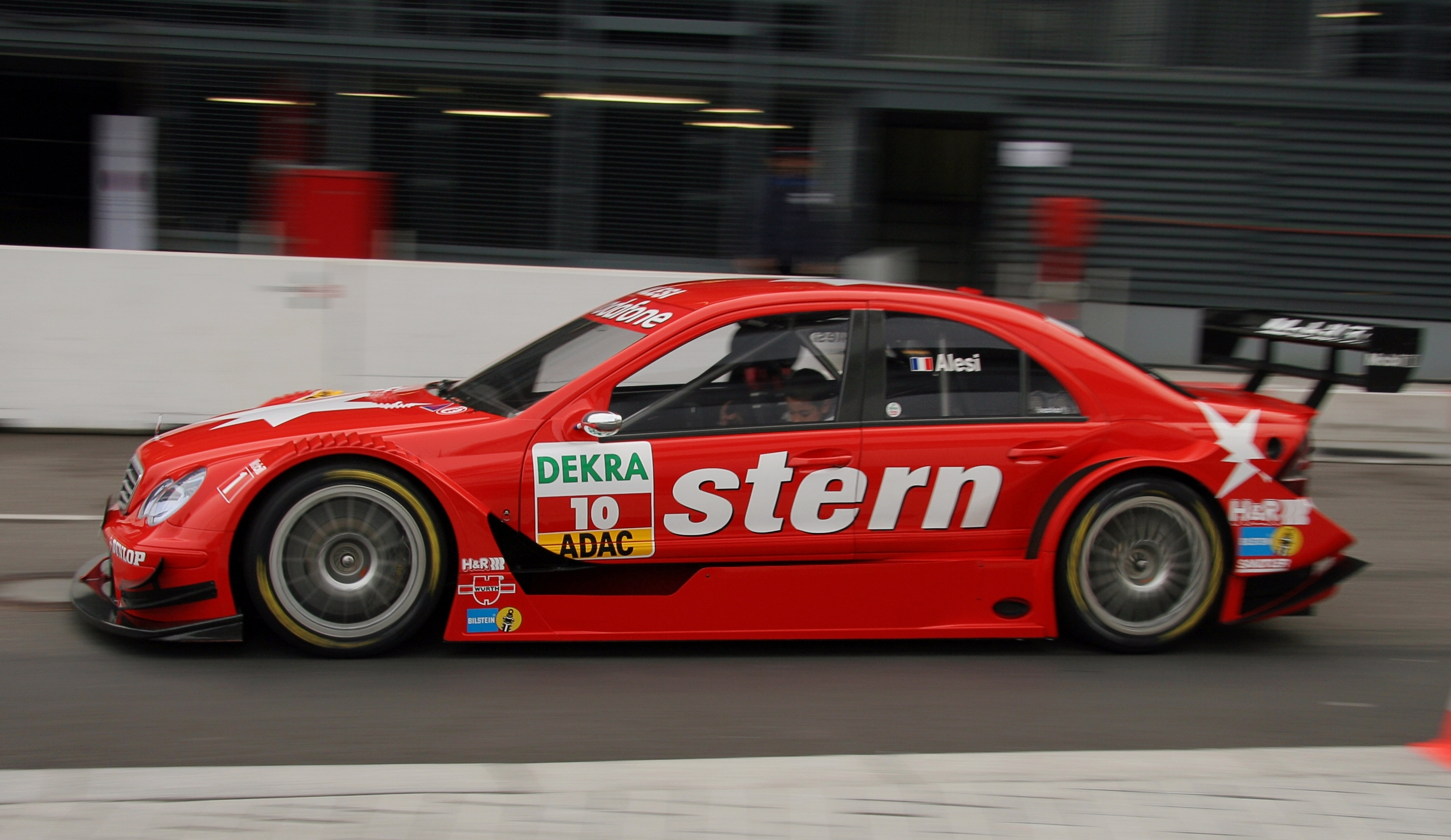 DTM car Mercedes-Benz AMG 2006 (C-Class, W203), Jean Alesi (driver) with a kid on his laps.